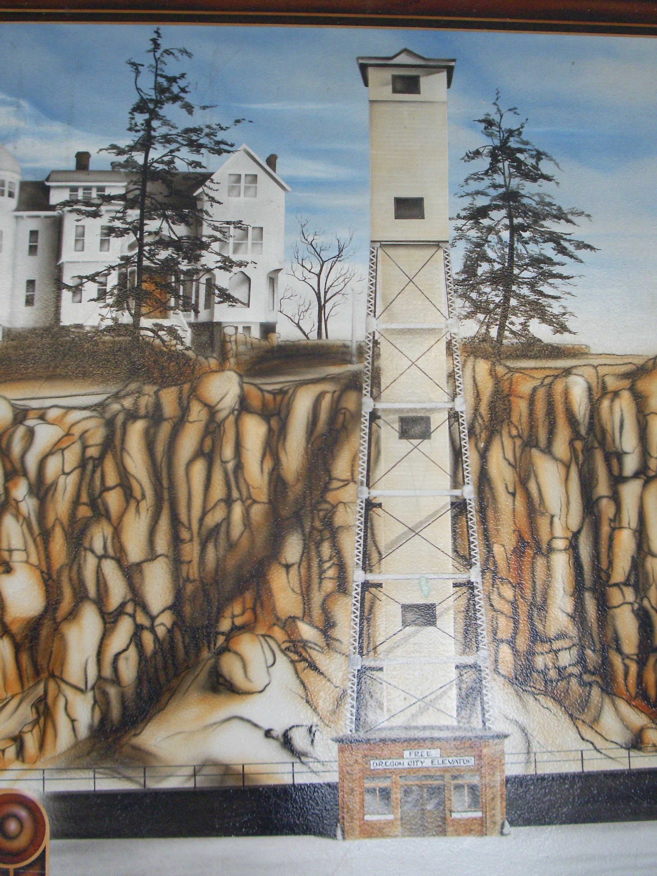 Photo of mural painting of historical photo depicting original Oregon City Municipal Elevator. Mural located at top elevator lobby.